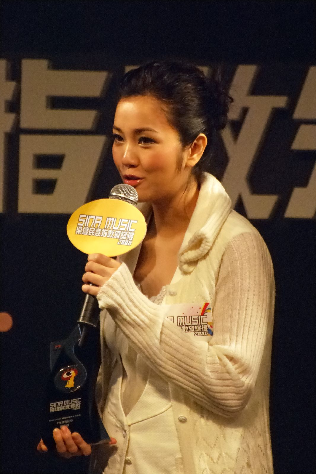 Kay Tse at SINA Music樂壇民意指數頒獎禮 2006 (hosted on 29 January 2007)